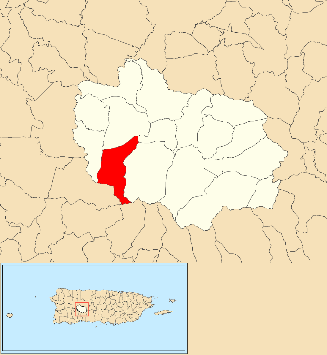 Limaní, Adjuntas, Puerto Rico locator map